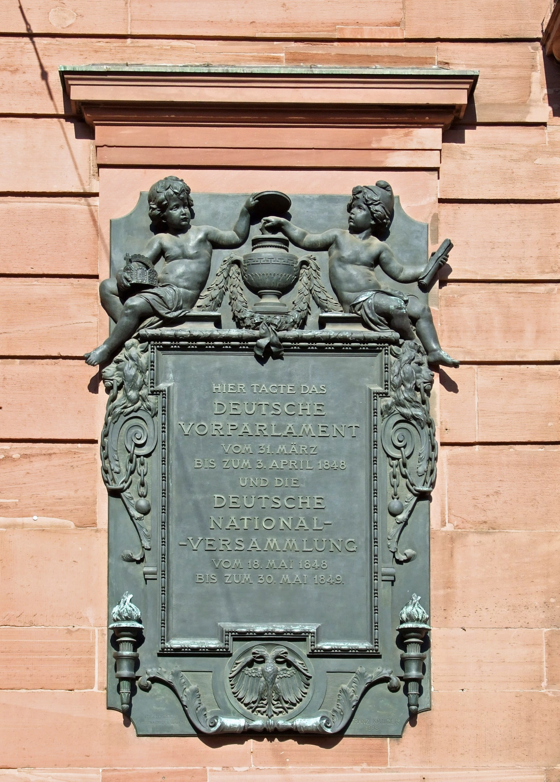 commemorative plaque of the first german parliament (1848), outside of Paulskirche in Frankfurt am Main